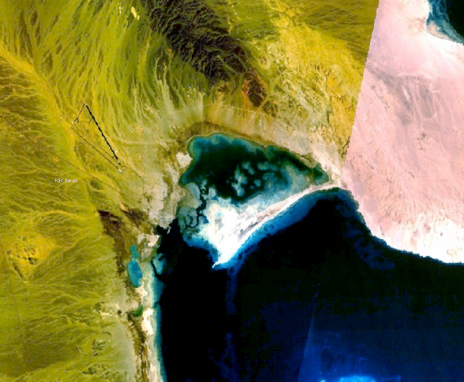 Satellite photo of Berenice Troglodytica (Baranis)